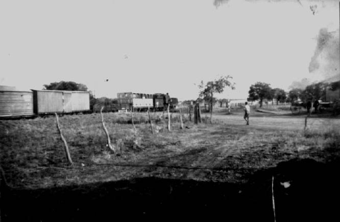 Level crossing on Víctor Monsalvo street in the city of Primero de Mayo, Entre Ríos Province (Argentina).